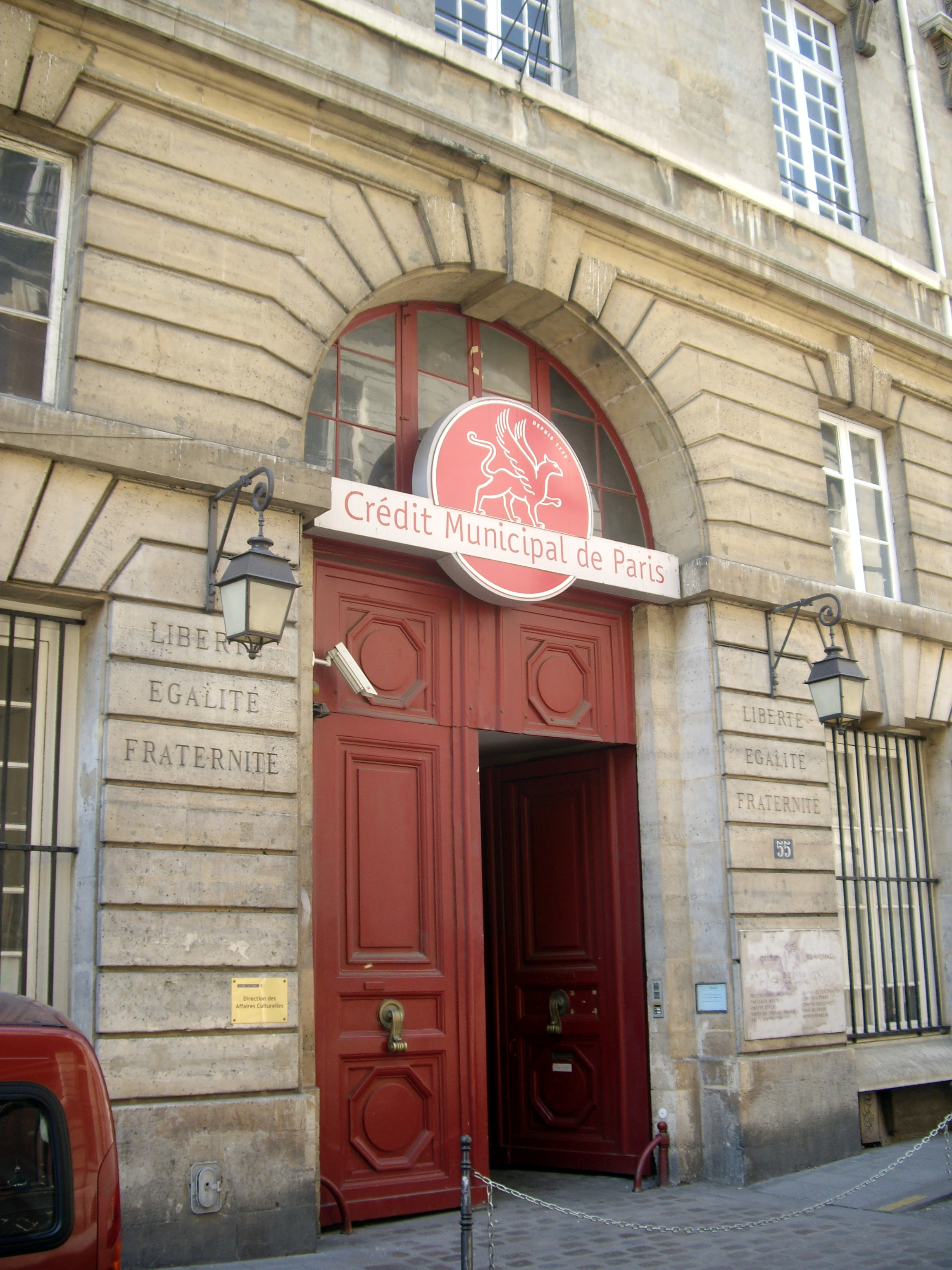 Entrée principale du Crédit municipal de Paris, 55 rue des Francs-Bourgeois, Paris 4e.